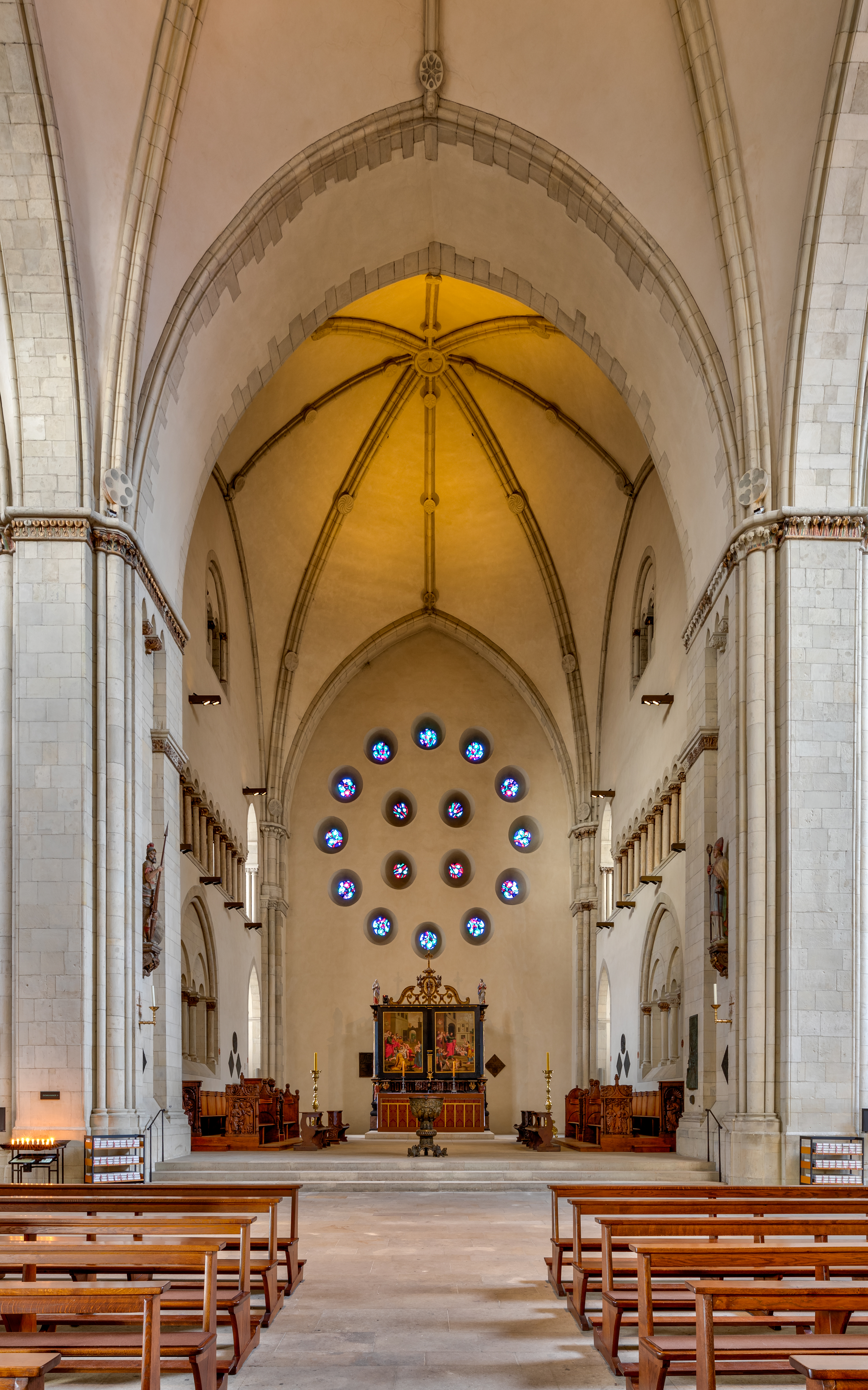 Old choir at St Paul's Cathedral in Münster, North Rhine-Westphalia, Germany